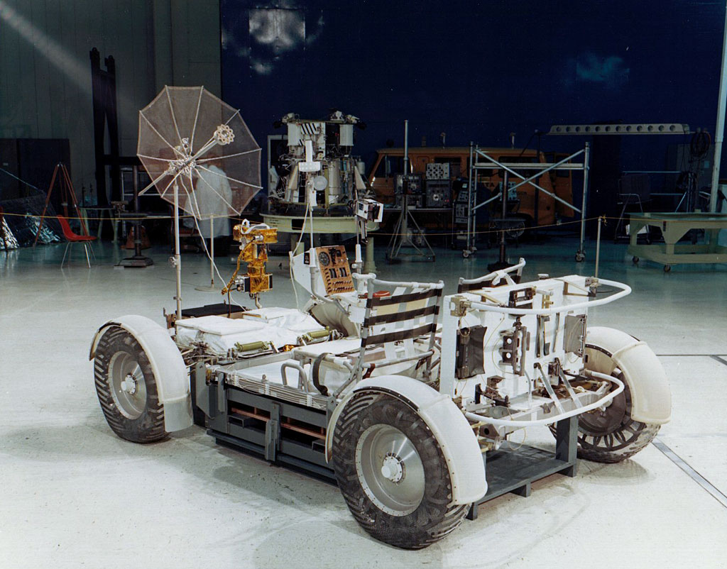 LRV-1 at Boeing plant in Kent, Washington, prior to delivery to KSC